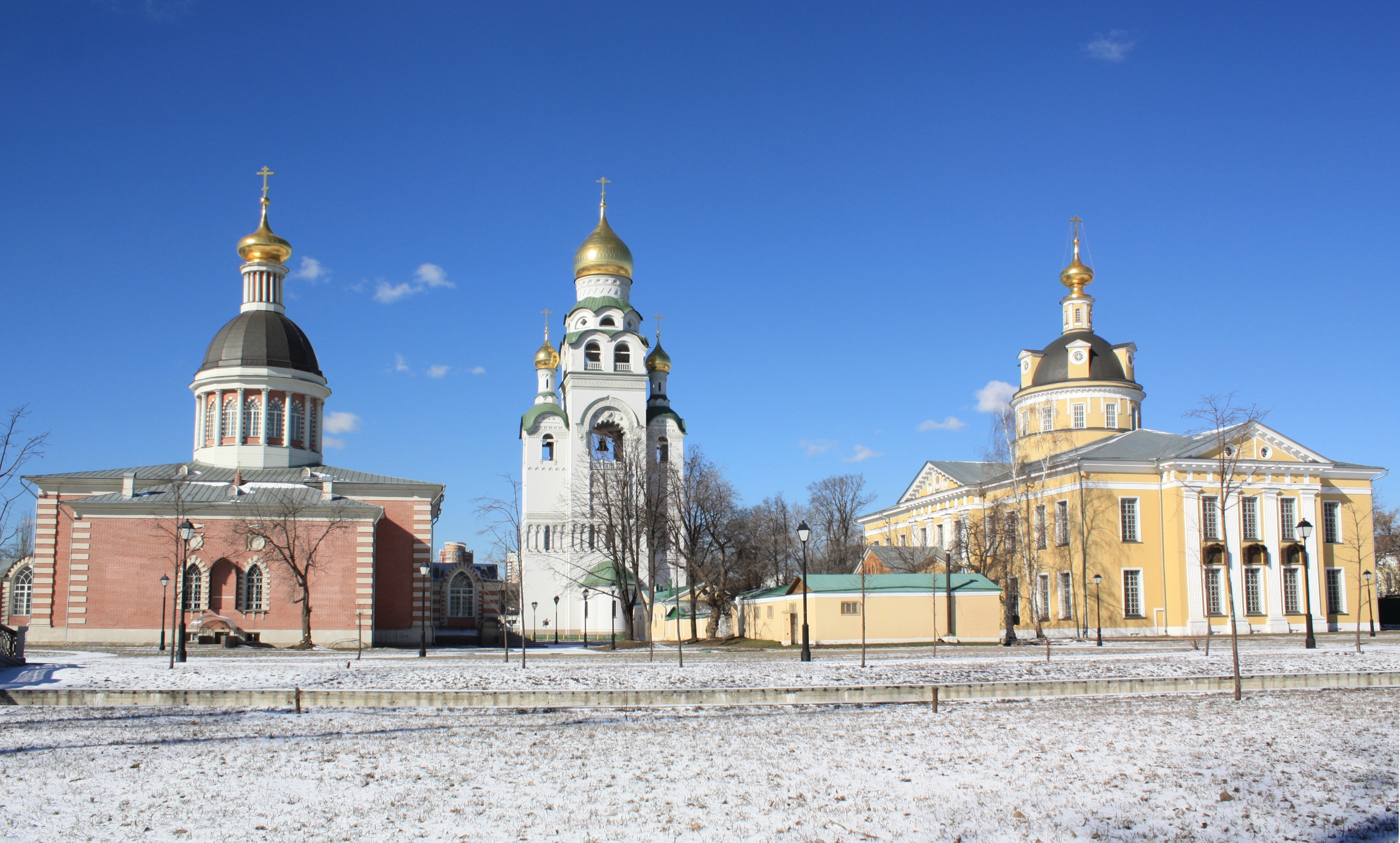 March 23, 2015. spring snow